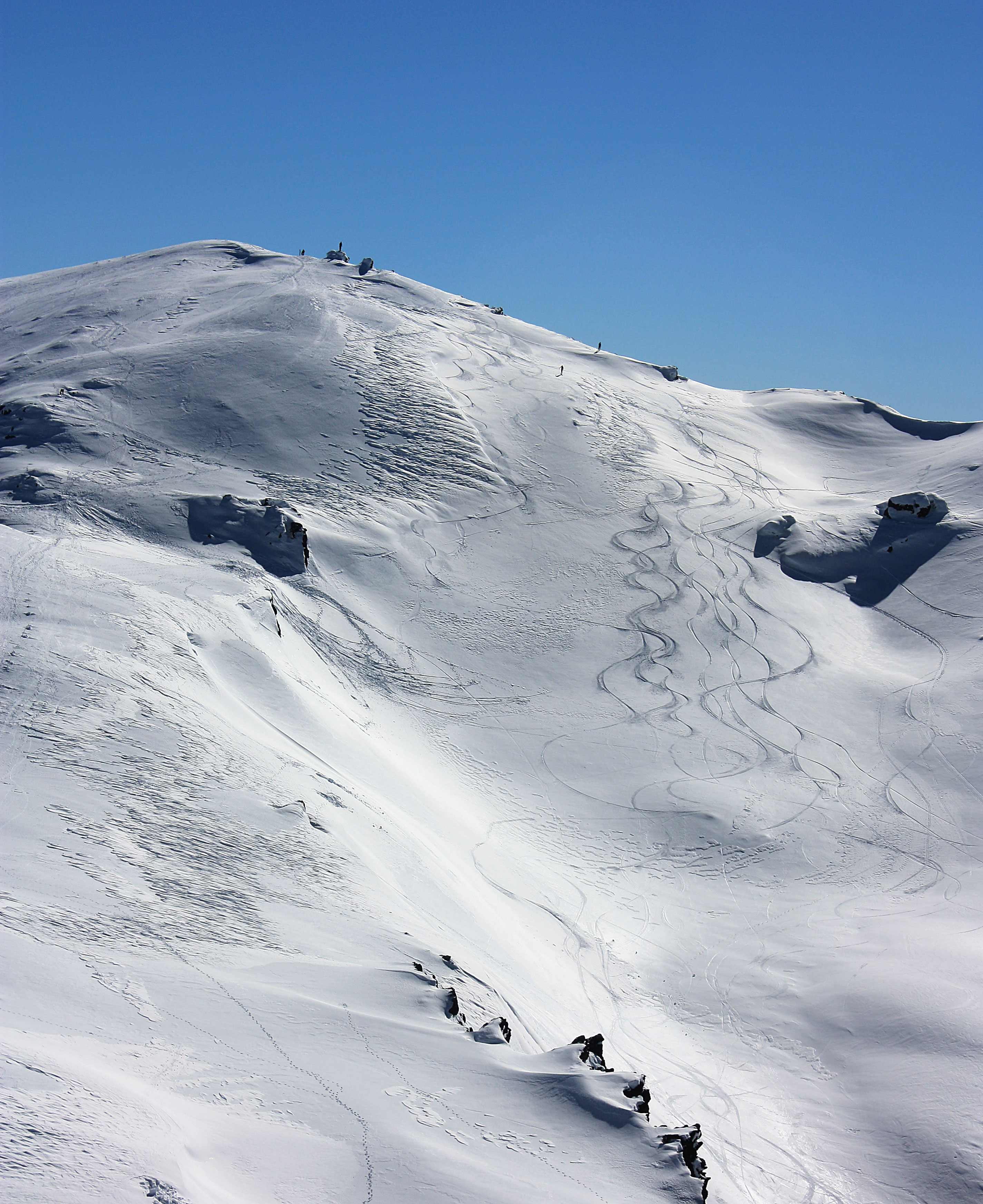 Mount Cardrona as viewed from lookout near Captains Basin charlift during winter.